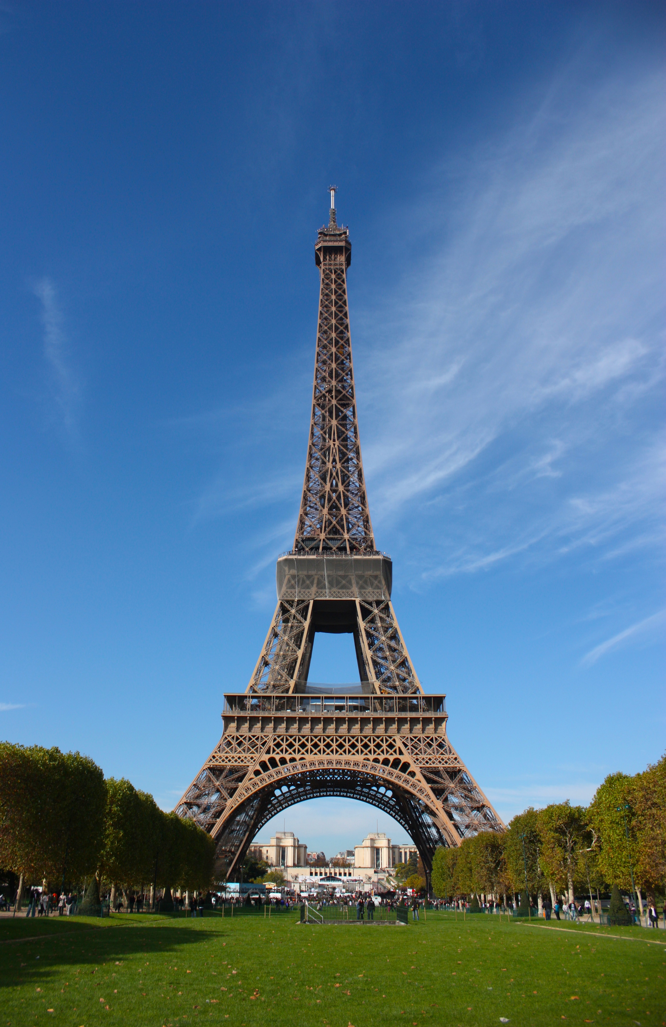 The Eiffel Tower, as seen from the champ de Mars in Paris, France.